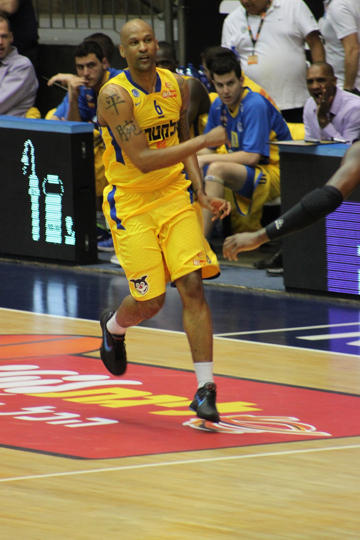 Maccabi Tel Aviv vs. Habik'a B.C. , May 2, 2012.